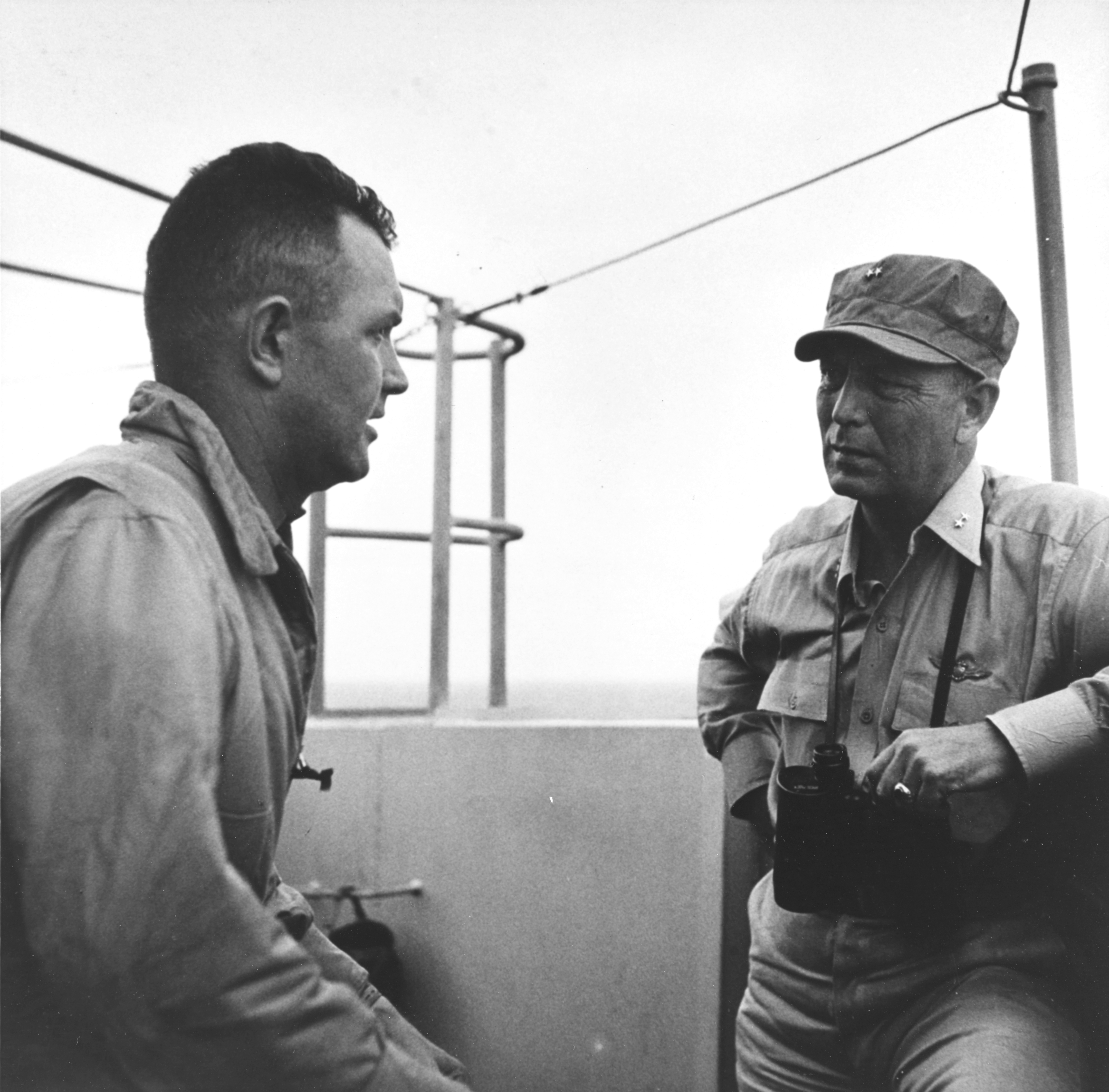 U.S. Navy Commander Air Group 80, Commander Albert O. Vorse, discusses the results of the 6 November 1944 fighter raid on Manila with Rear Admiral Arthur W. Radford, right, aboard the aircraft carrier USS Ticonderoga (CV-14).